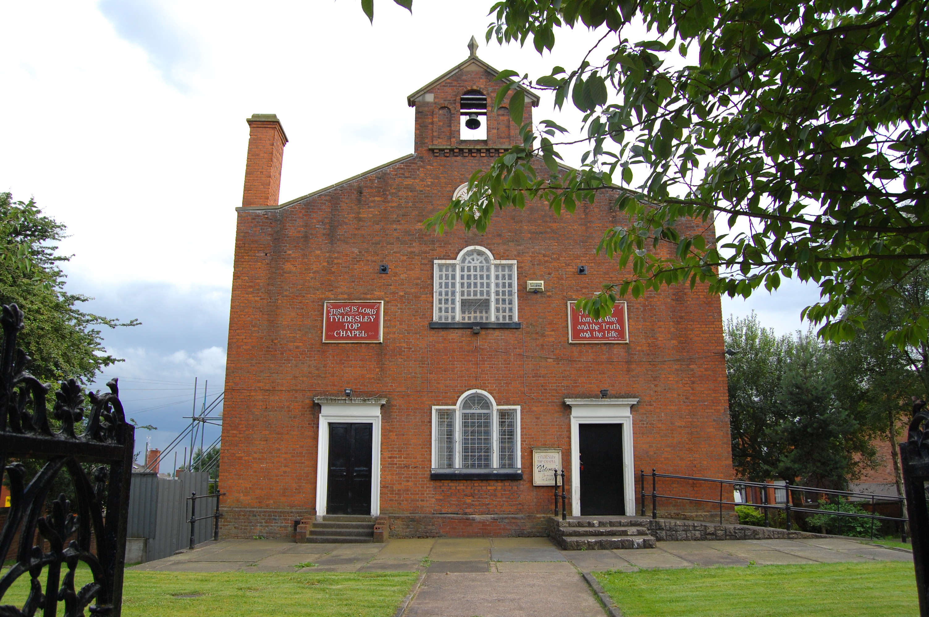 Top Chapel was built in 1798 and was the first place of worship built in Tyldesley, Greater Manchester, England.